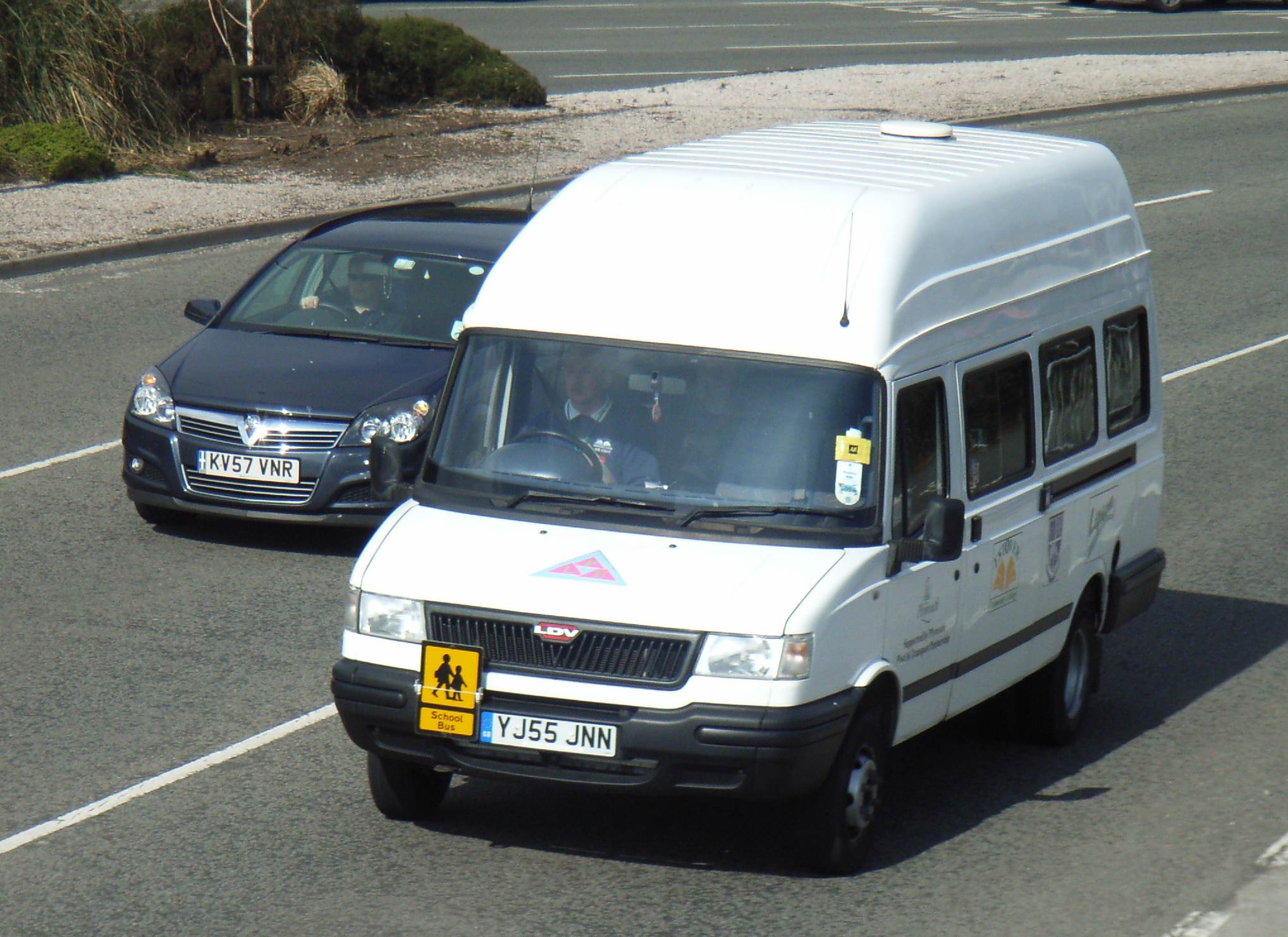 Photograph of a British school bus. Plymouth City Council YJ55JNN Marsh Mills Plymouth 13 March 2009